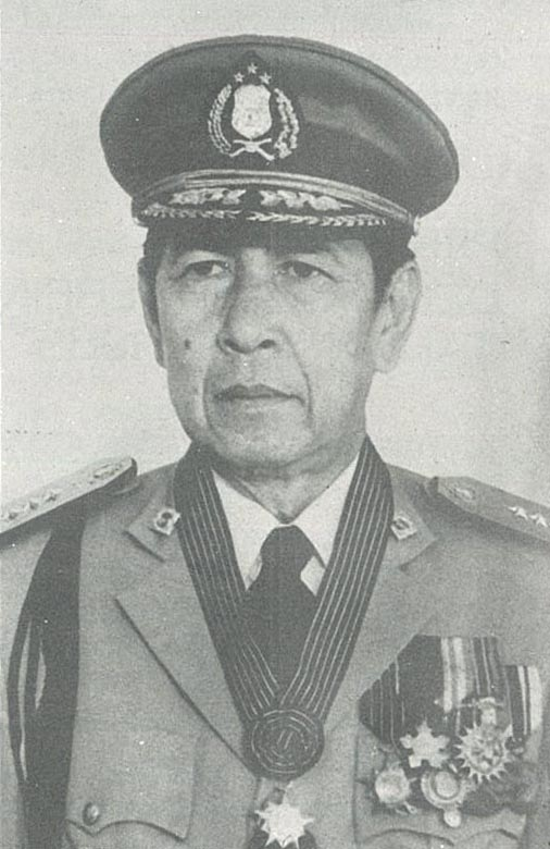 Police chief Moh Hassan